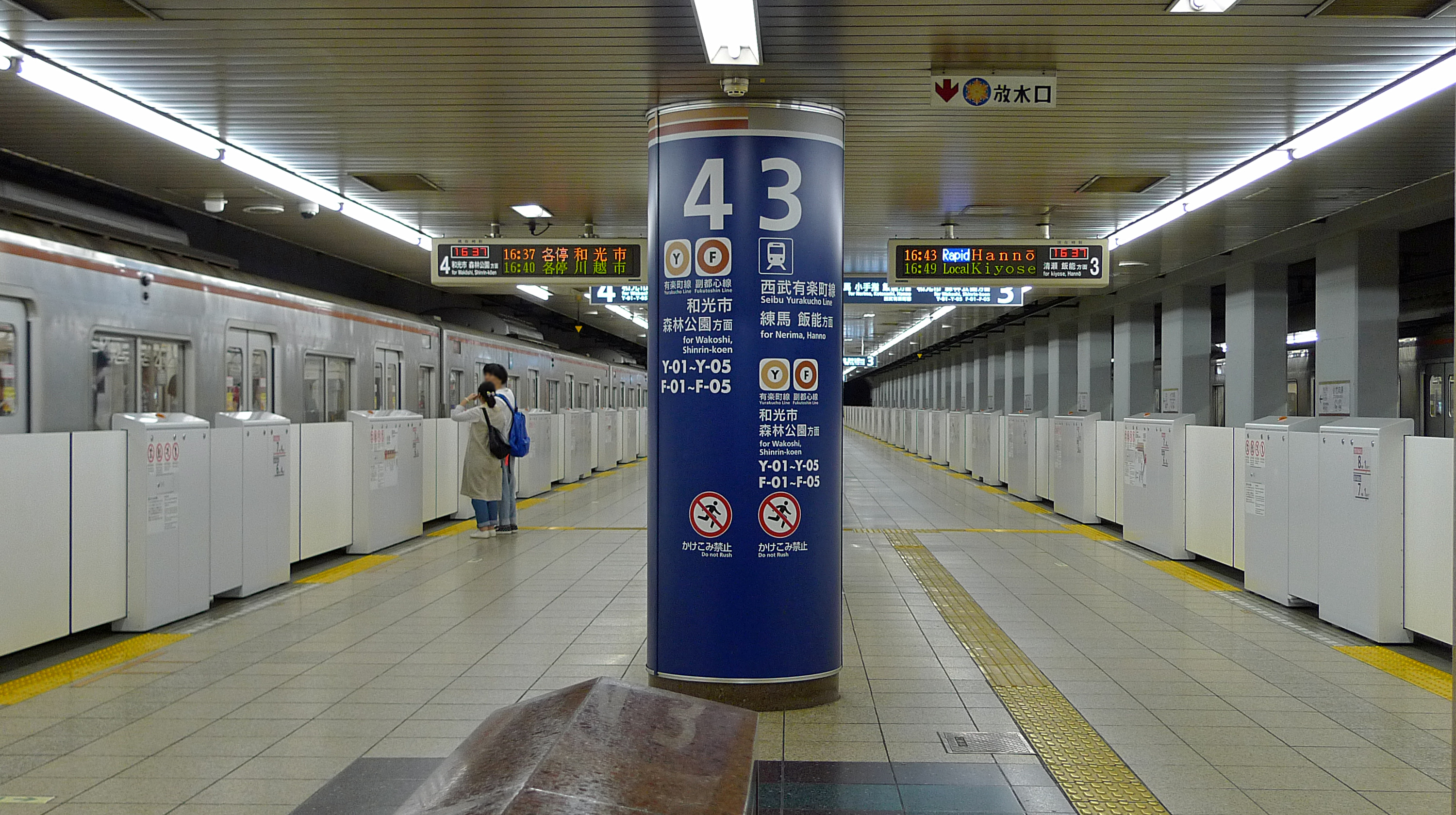 Kotake-Mukaihara station No.3 and 4 platforms,Tokyo Metro Yurakucho and Fukutoshin Line.